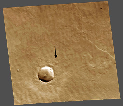 A Photo taken by a Viking spacecraft in the late 1970's of an area of Mars including the Corby crater, under the arrow.